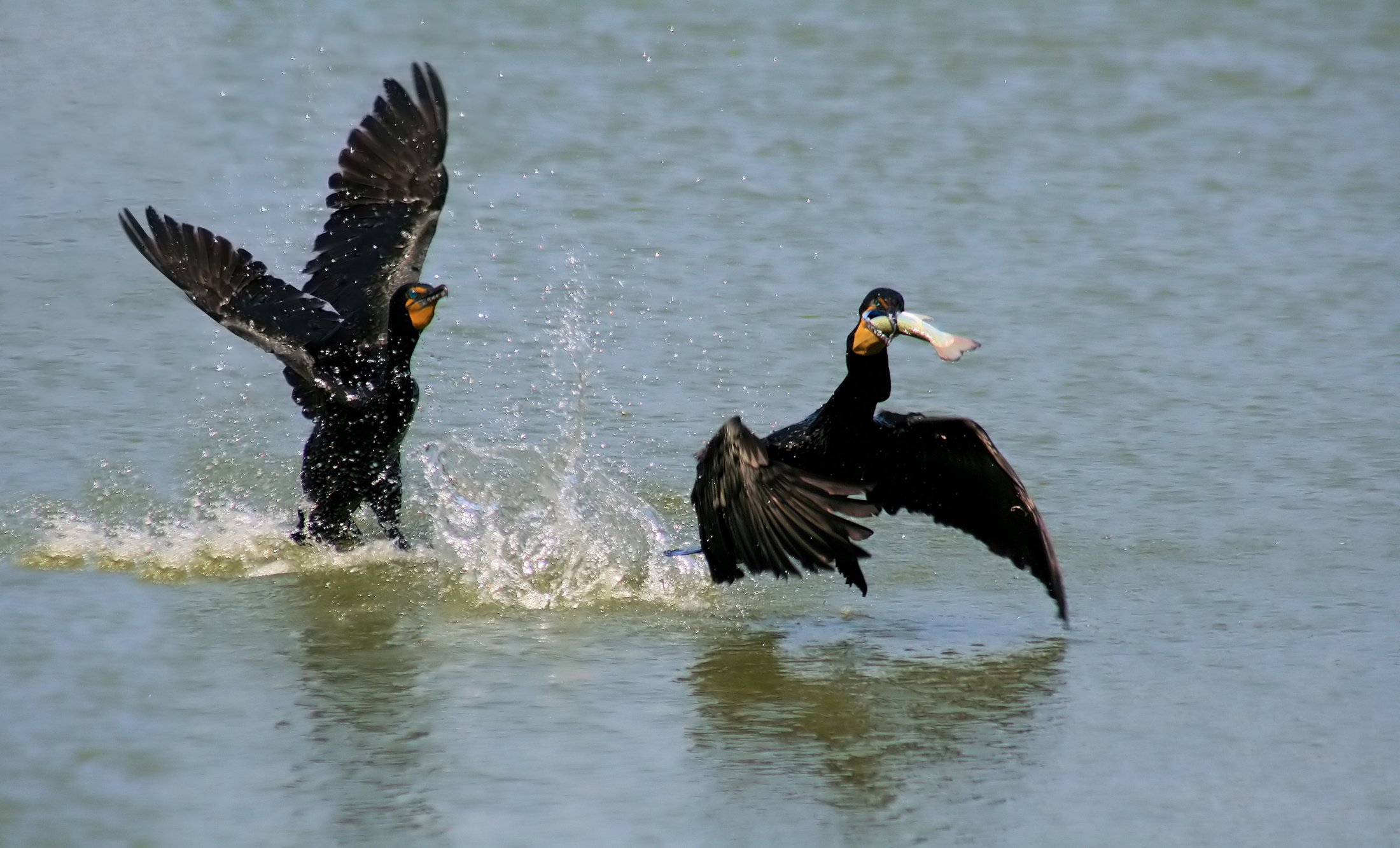 Two Double-crested Cormorants (Phalacrocorax auritus) and one fish. Like all cormorants, the double-crested dives to find its prey. It mainly eats fish. Fish are caught by diving under water. Smaller fish may be eaten while the bird is still beneath the surface but bigger prey is often brough to the surface before it is eaten.